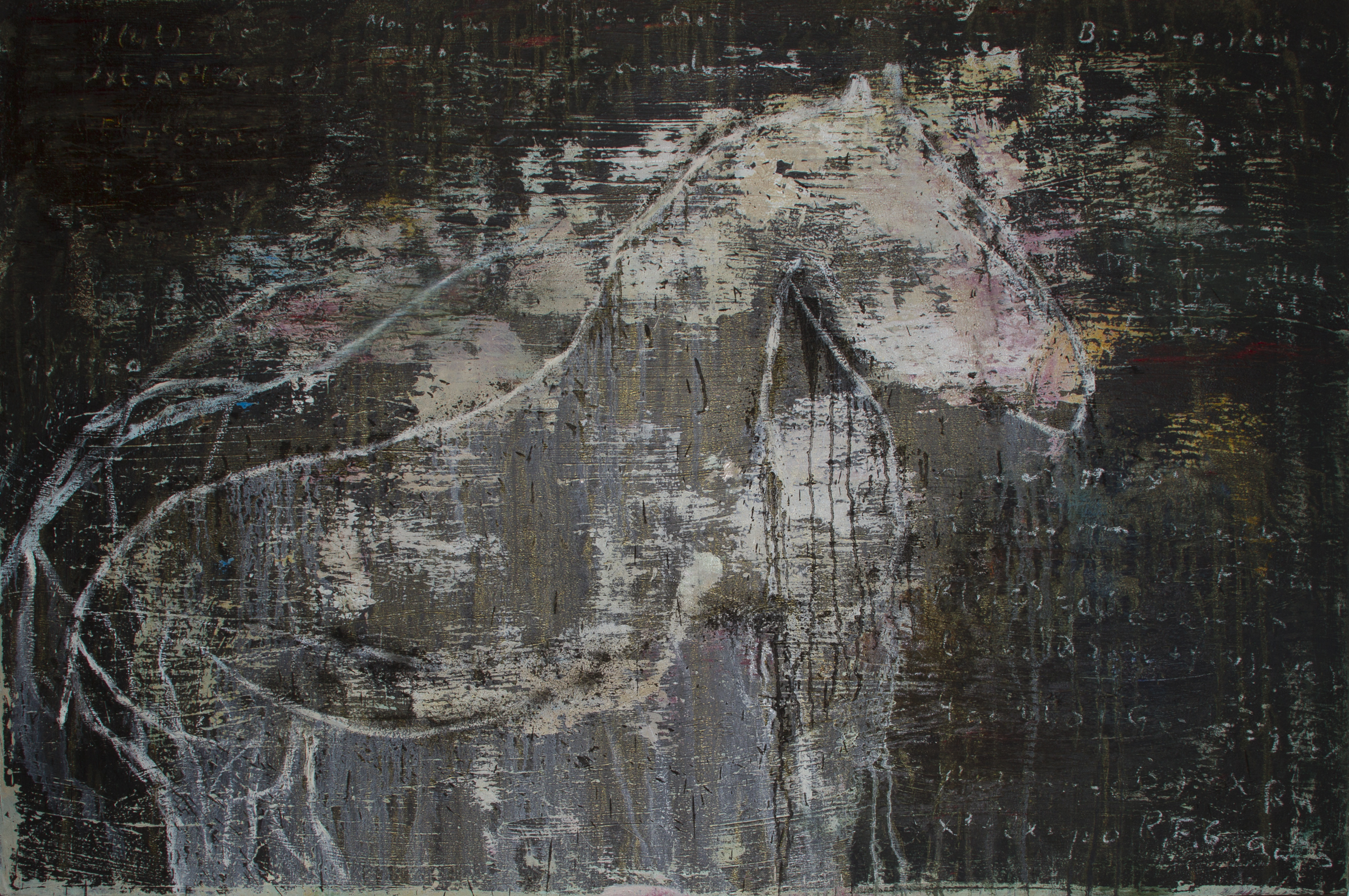 Painting by Adam Shaw